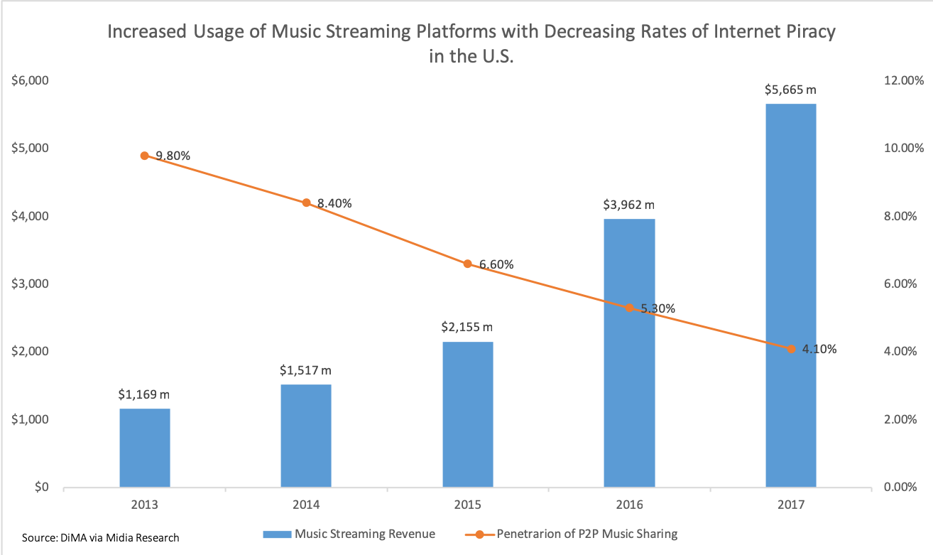 As music streaming platforms have become more prevalent in the U.S., music piracy rates have fallen. Piracy rates are calculated as a function of U.S. total population. This data was sourced from the Digital Media Association's (DiMA) annual report from March 2018.